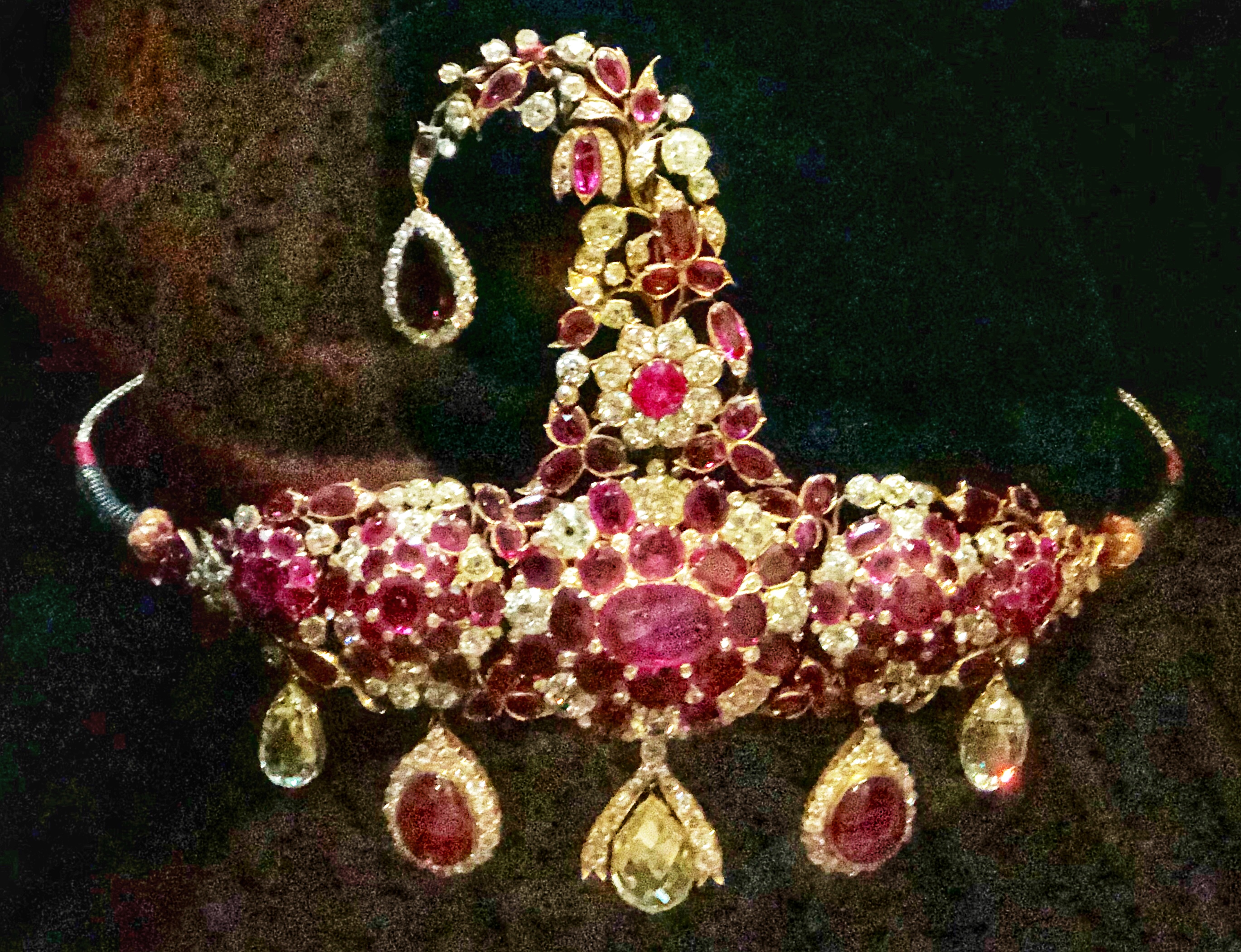 Every Nizam had a special crown made for him for ceremonial purposes and they mostly used to be made of emeralds and diamonds and pearls all set in gold. This one has Burmese rubies as the main decorative motif.